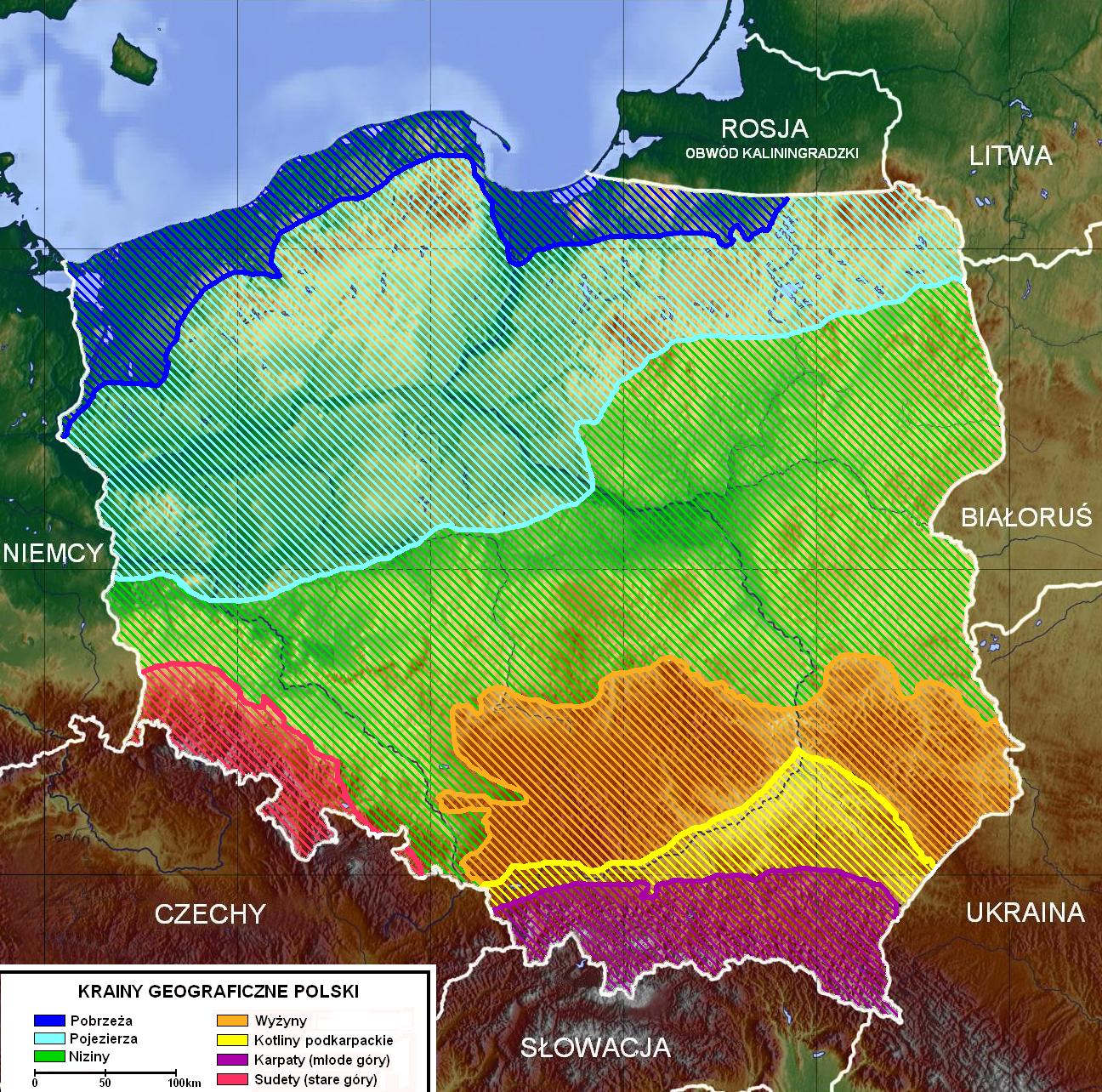 File Poland_topo1_geographically.JPG is a modification of the file: Poland topo.jpg and present geographically Polish